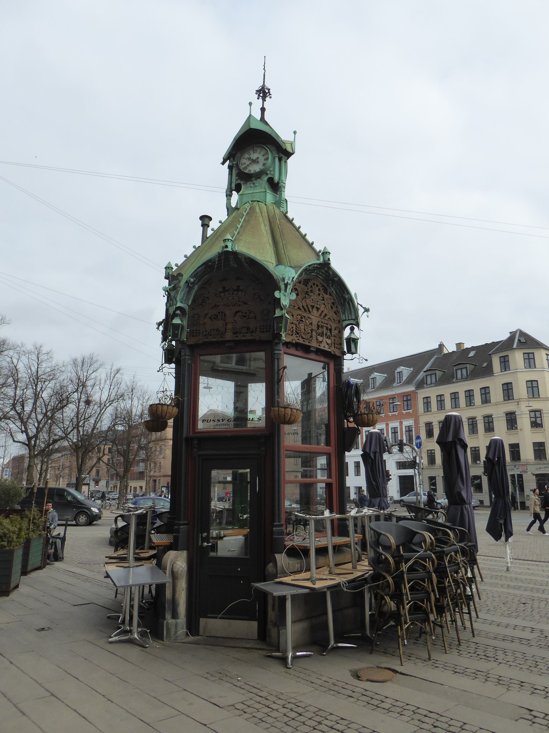 A former telephone kiosk at Sankt Hans Torv in Nørrebro in Copenhagen.